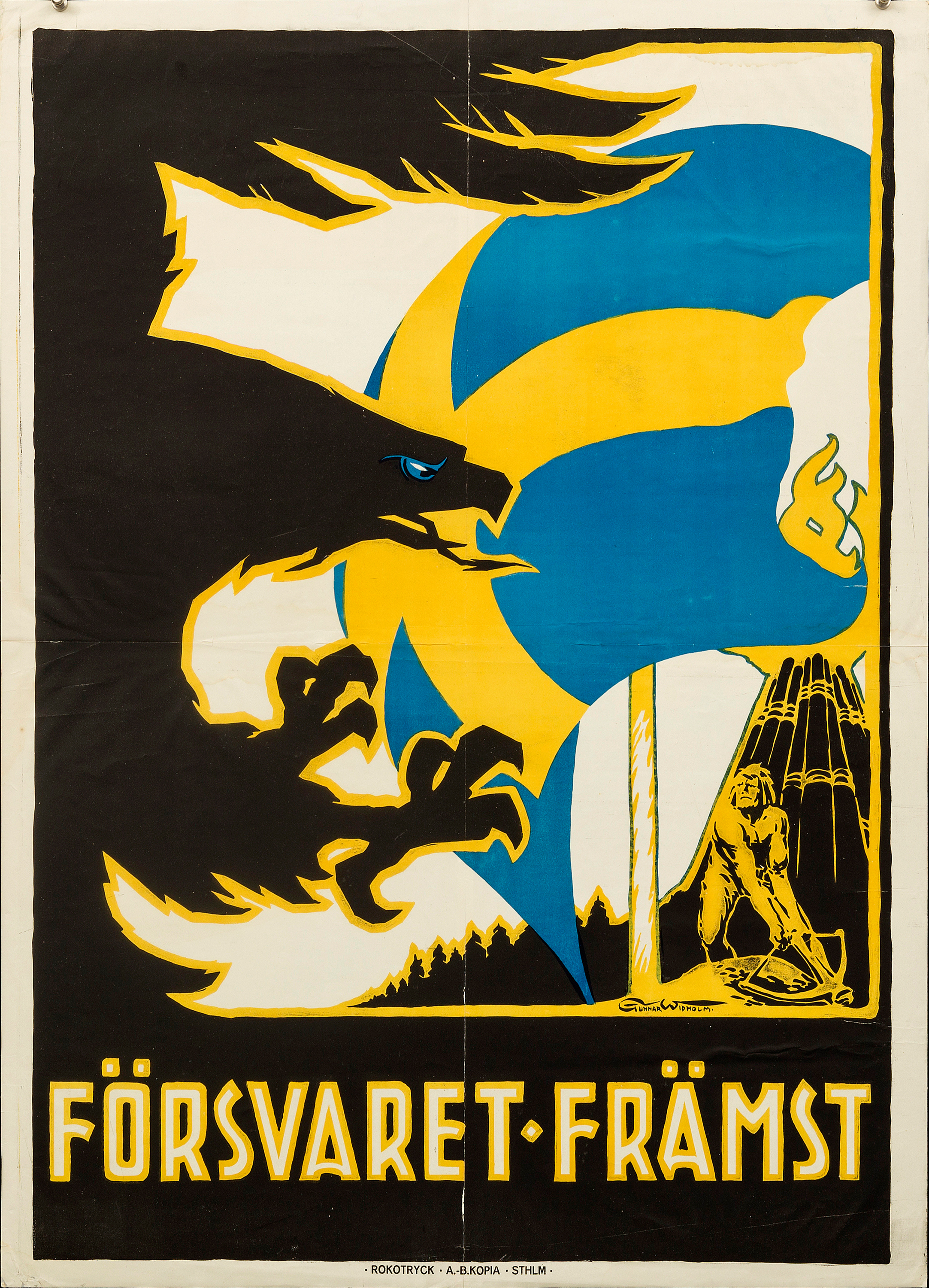 Picture of election poster from Sweden 1914